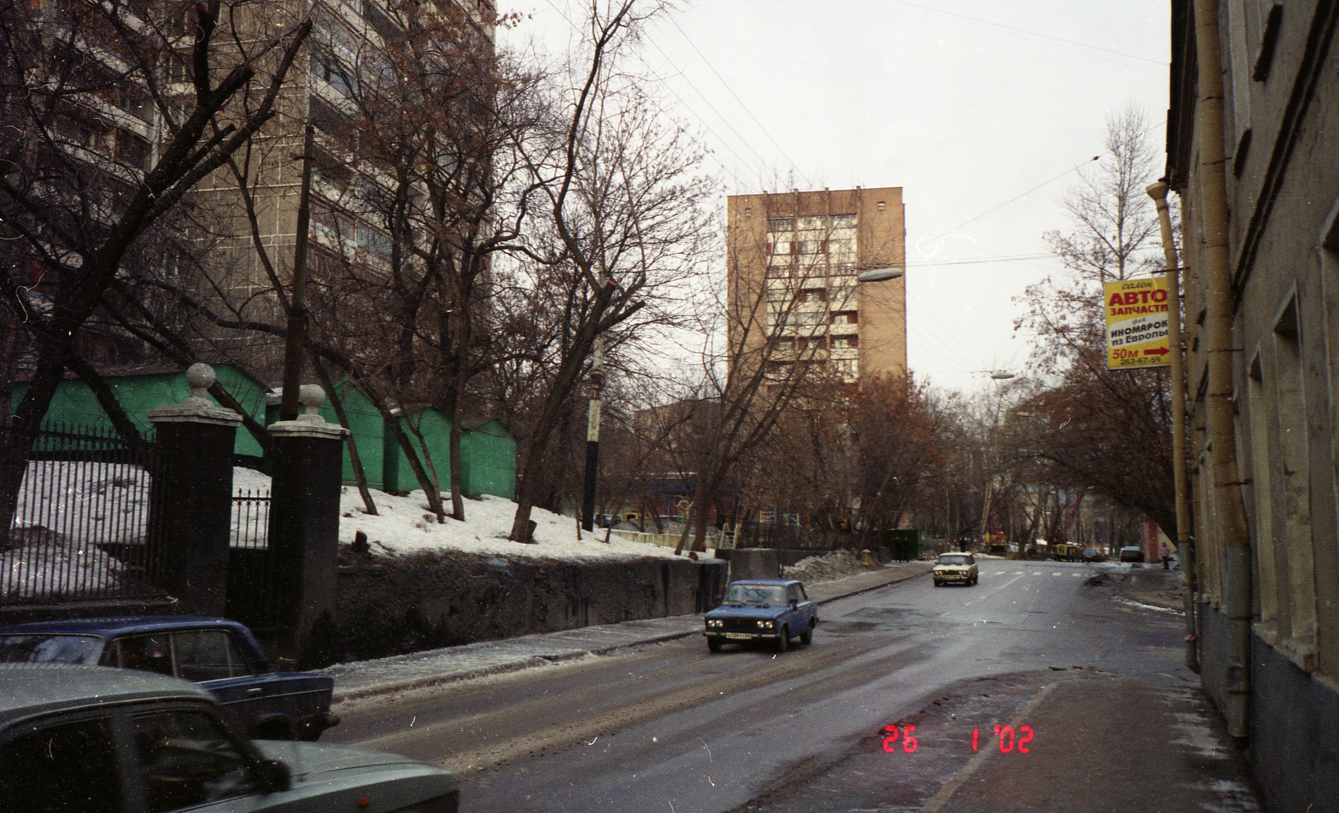 Cantenary pole from "temporary closed" tram line in 1986 Olympus mju-II camera, Konica 200